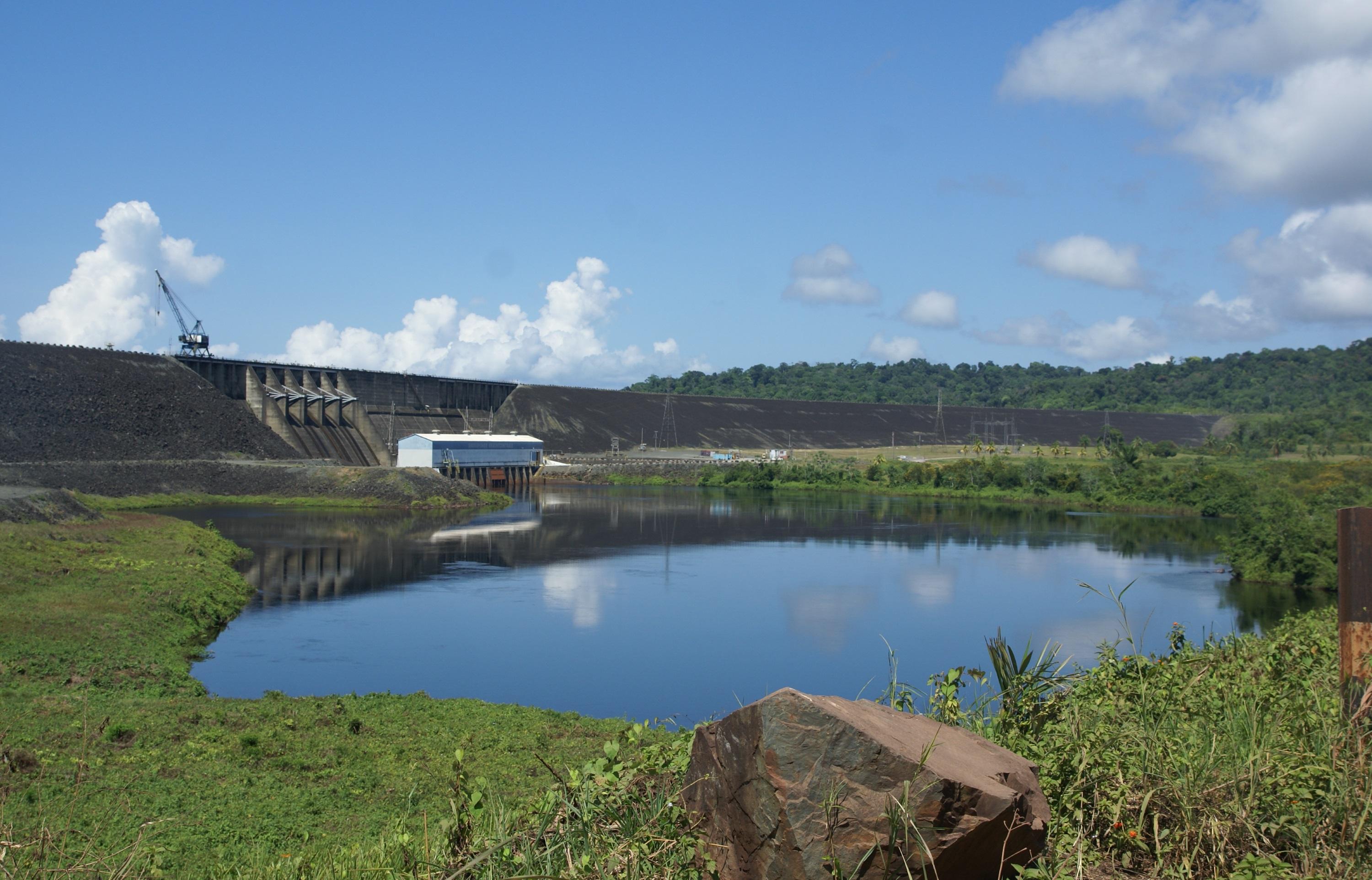 Afobakadam, Brokopondo, Surinam.